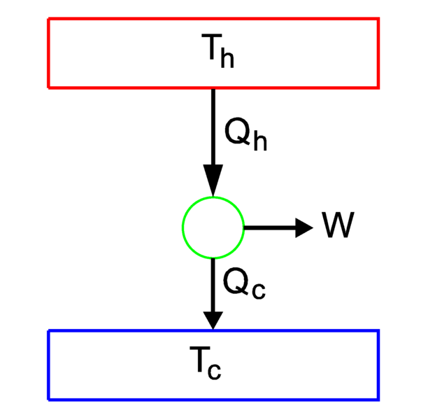 Heat engine between a hot and cold heat bath